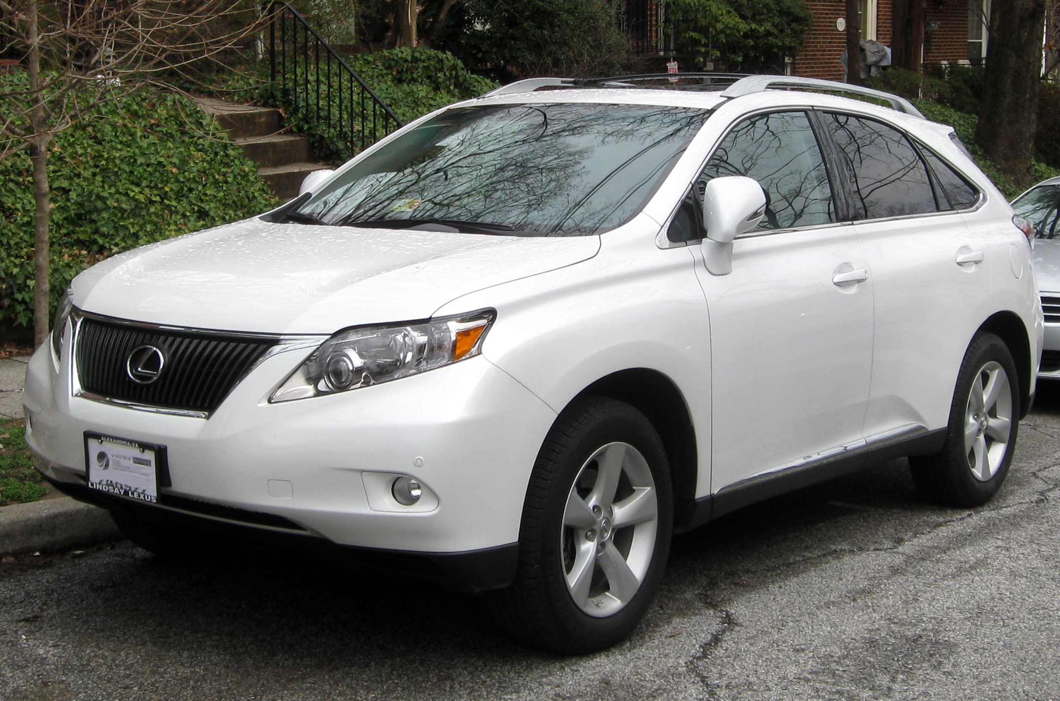 2010-2012 Lexus RX350 photographed in Washington, D.C., USA.